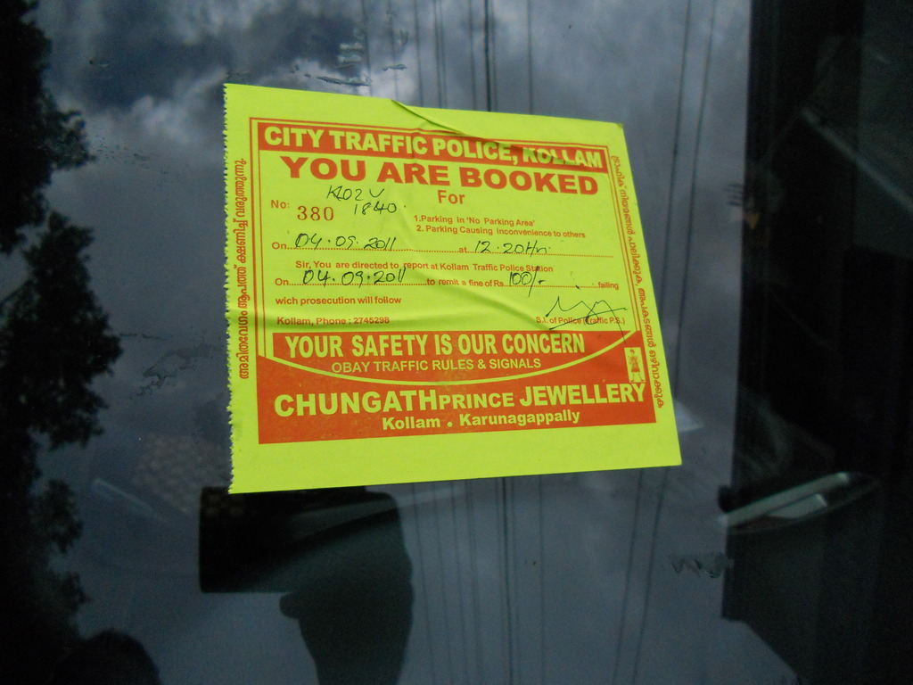 Sticker pasted by Kerala police